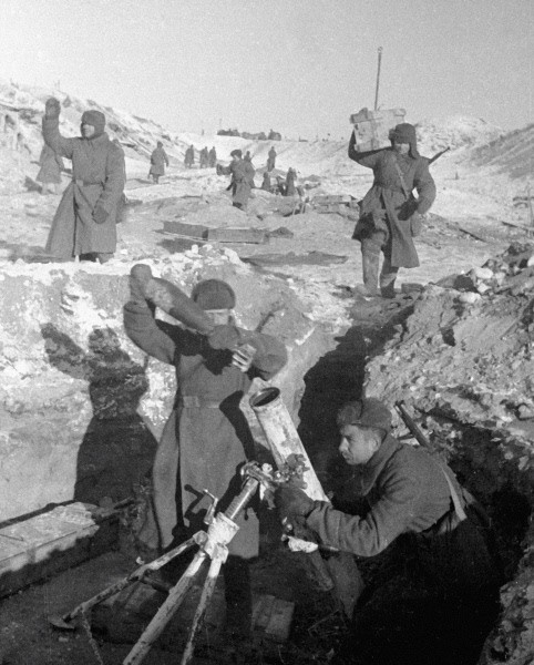 “Soldiers from Bezdetko's mortar battery”. Soldiers from Bezdetko's battery of regimental 120mm mortars firing at German positions.